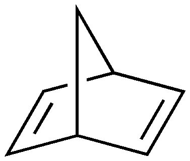 chemical structure of norbornadiene